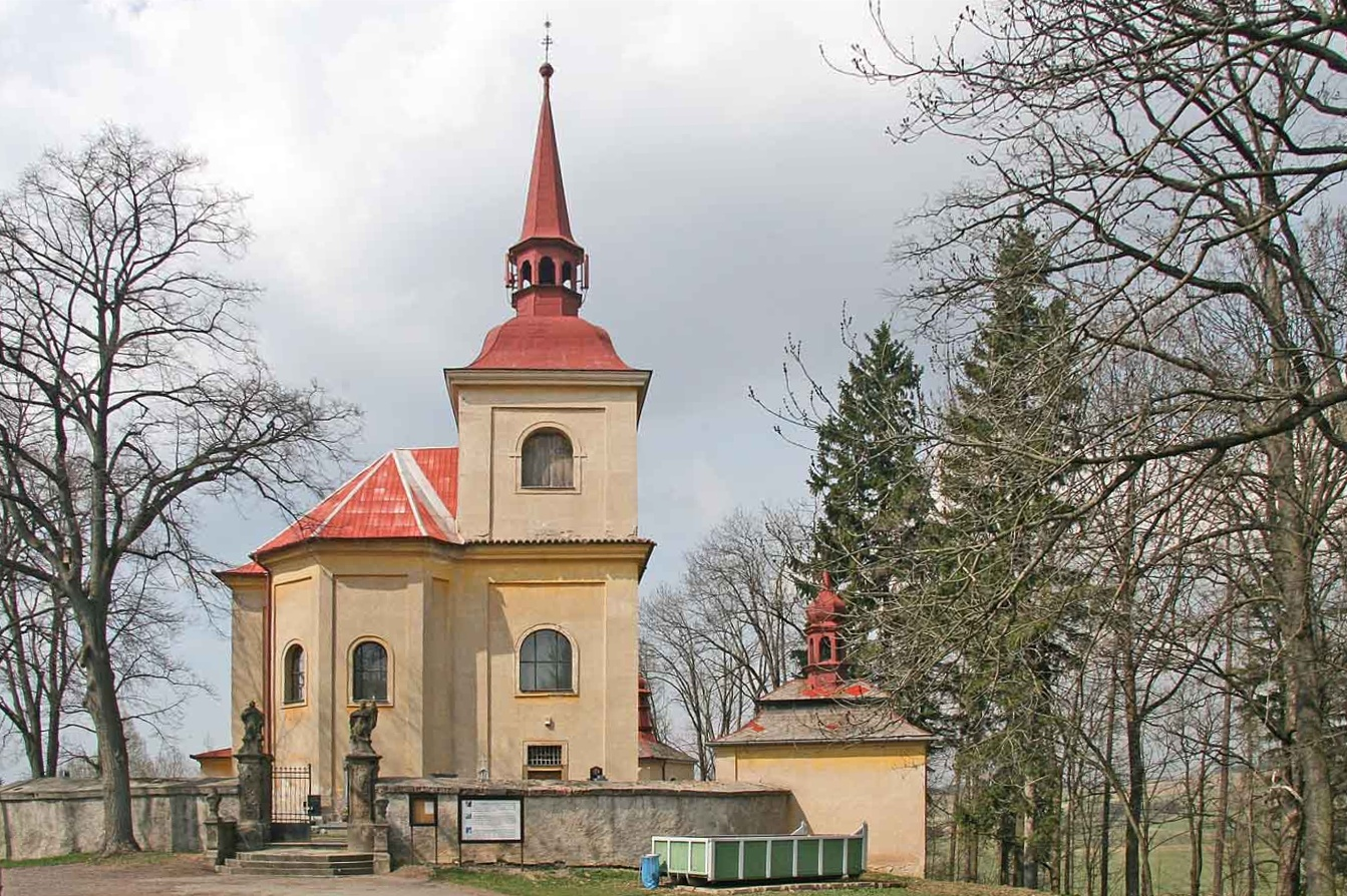 Pilgrimage church of Our Lady of Sorrows at Homole, Borovnice, Rychnov nad Kněžnou District, Czech Republic.